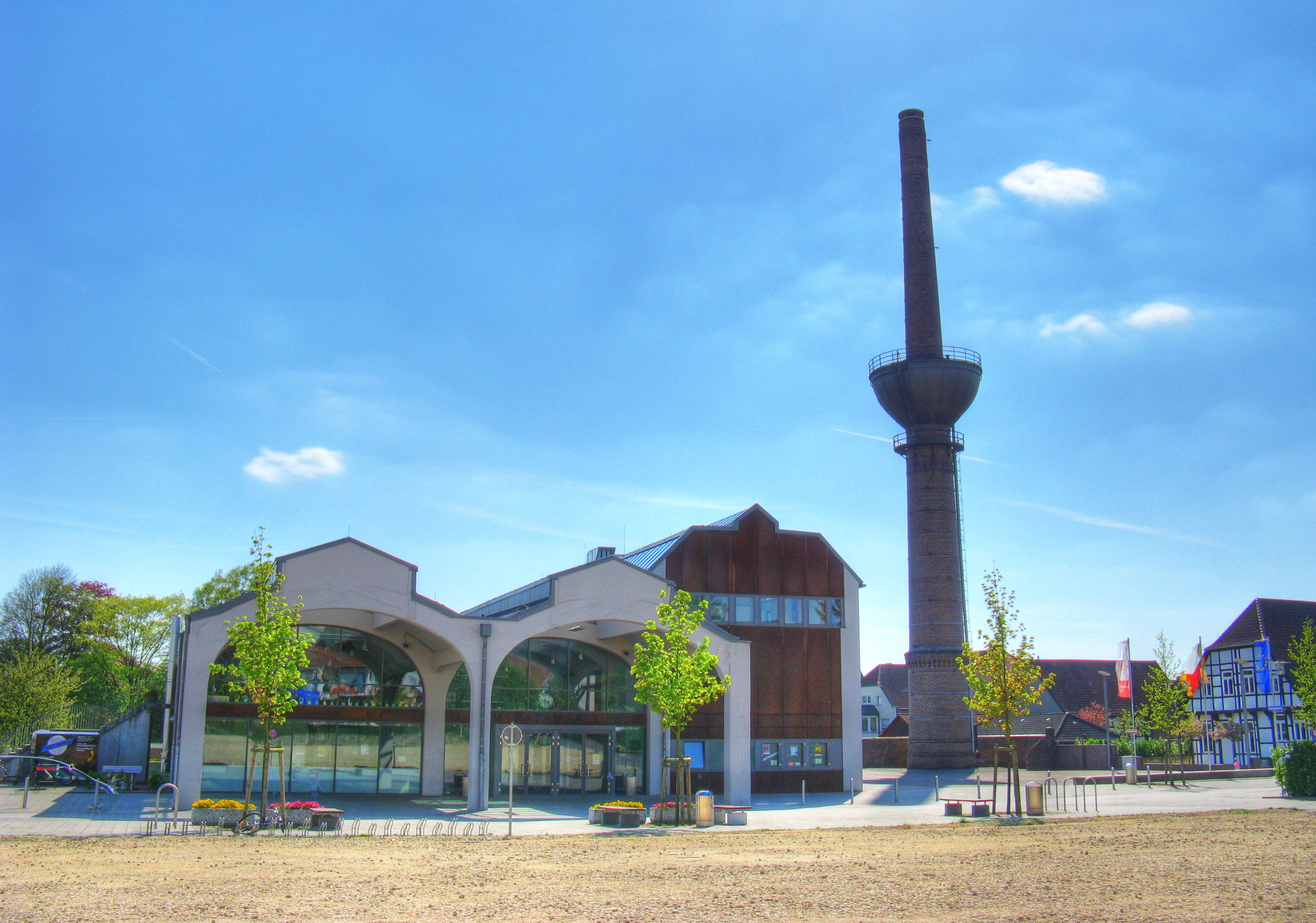 HDR Front View Gempthalle